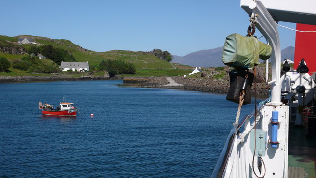 Fishing boat at Port Mor Viewed from the deck of the Calmac ferry as it calls in on the way to Eigg from Mallaig